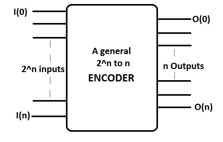 the image represents a general 2^n : n encoder